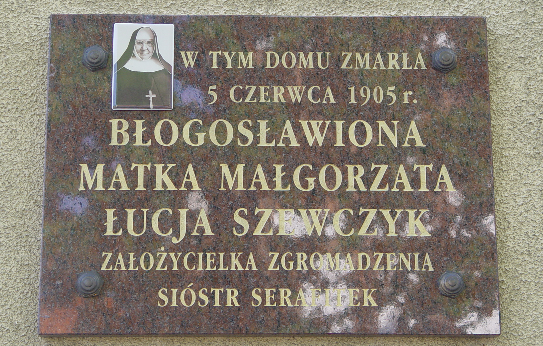 Nieszawa - plaque Blessed Mother Margaret Lucia Szewczyk, foundress of the Congregation of the Sisters of Serafitki